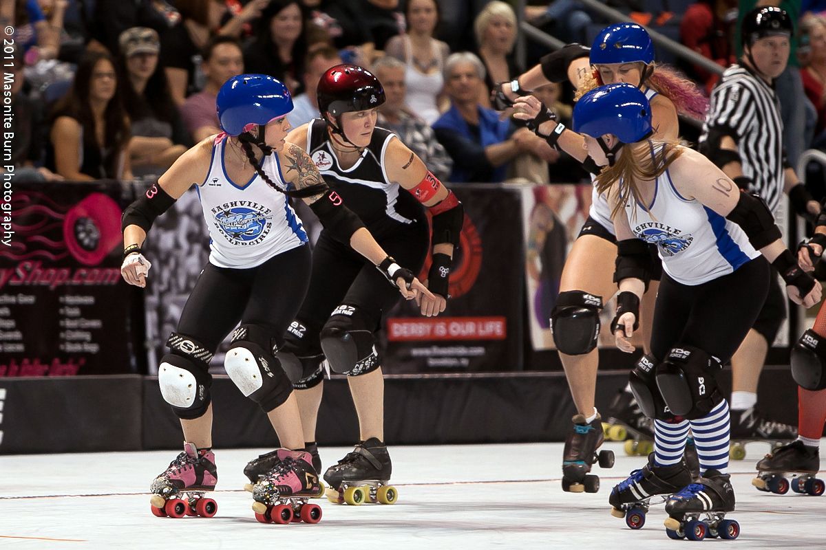 Nashville Rollergirls playing against Rocky Mountain Rollergirls during the 2011 WFTDA Championships